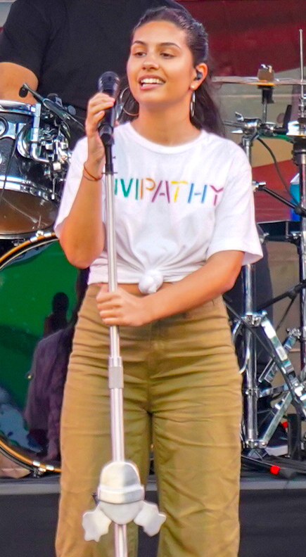 Alessia Cara at the Capital Pride Concert with a Sony A7III, Washington, DC USA 03575